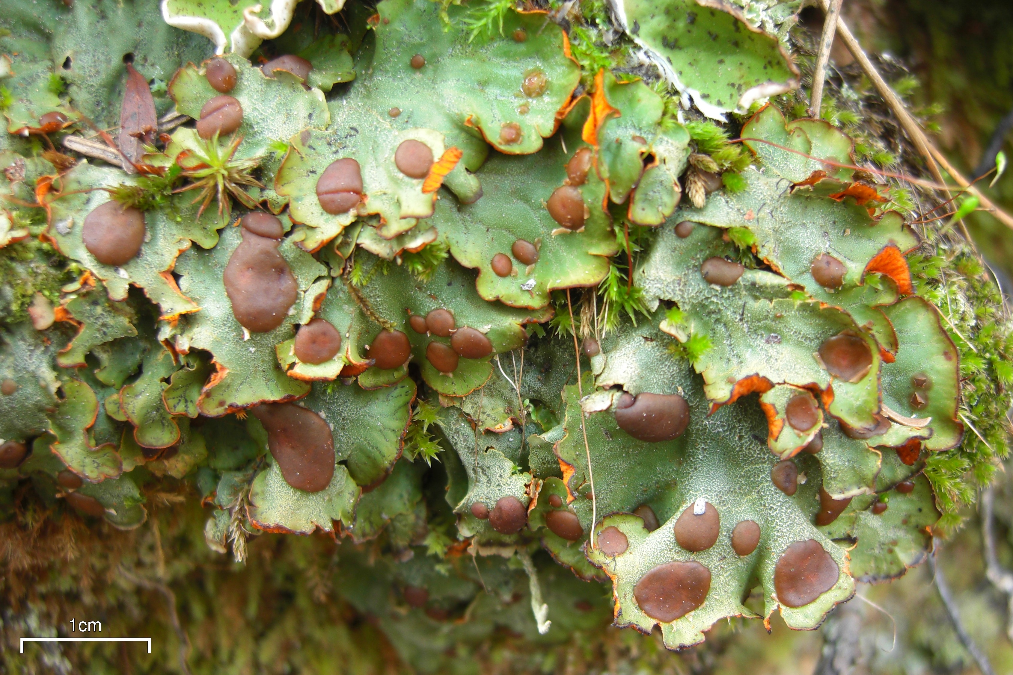 Solorina crocea (L.) Ach. 20090531.7 Wells Gray Provincial Park, BC